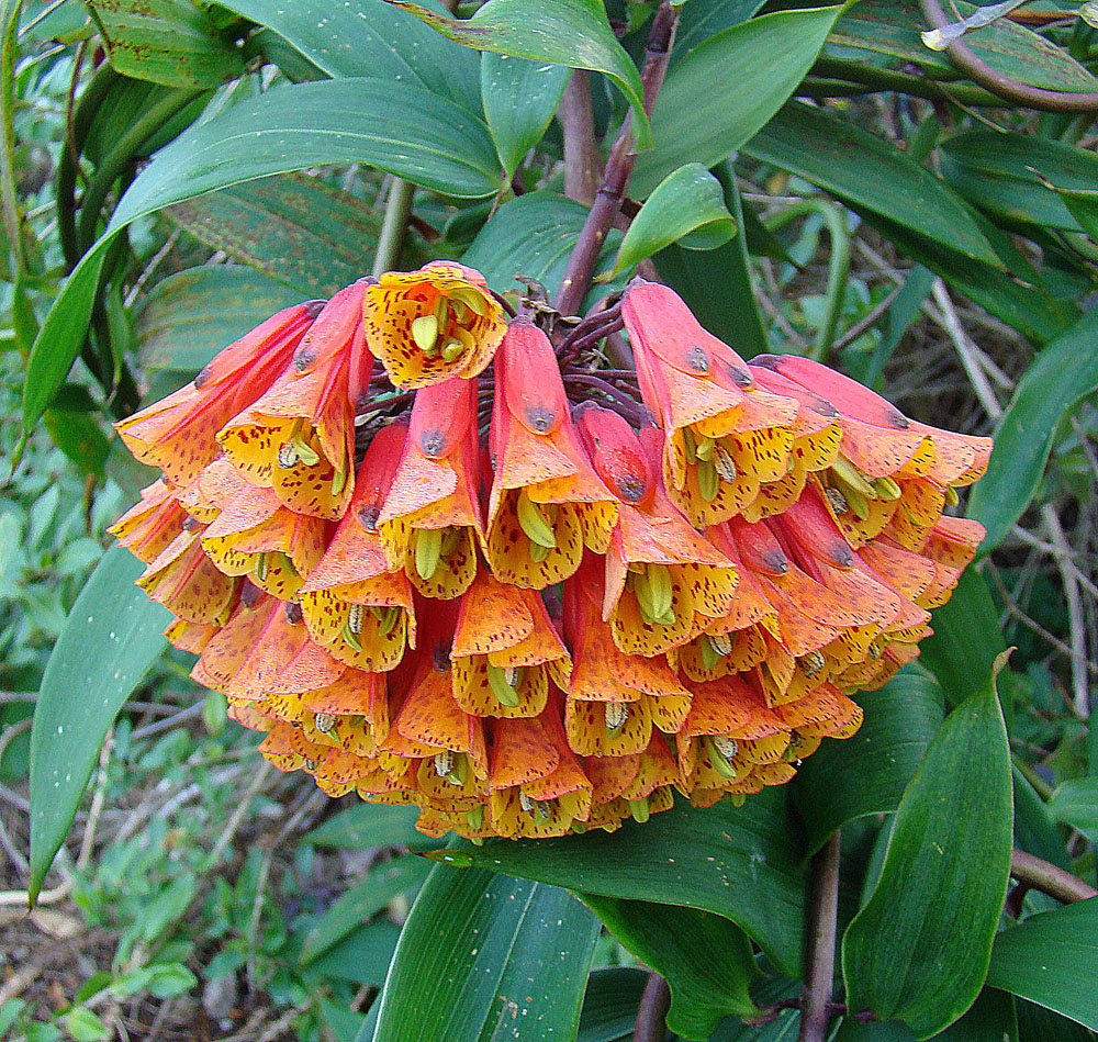 Found from Costa Rica to Peru and planted more widely. UC Berkeley Botanical Gardens. In context at